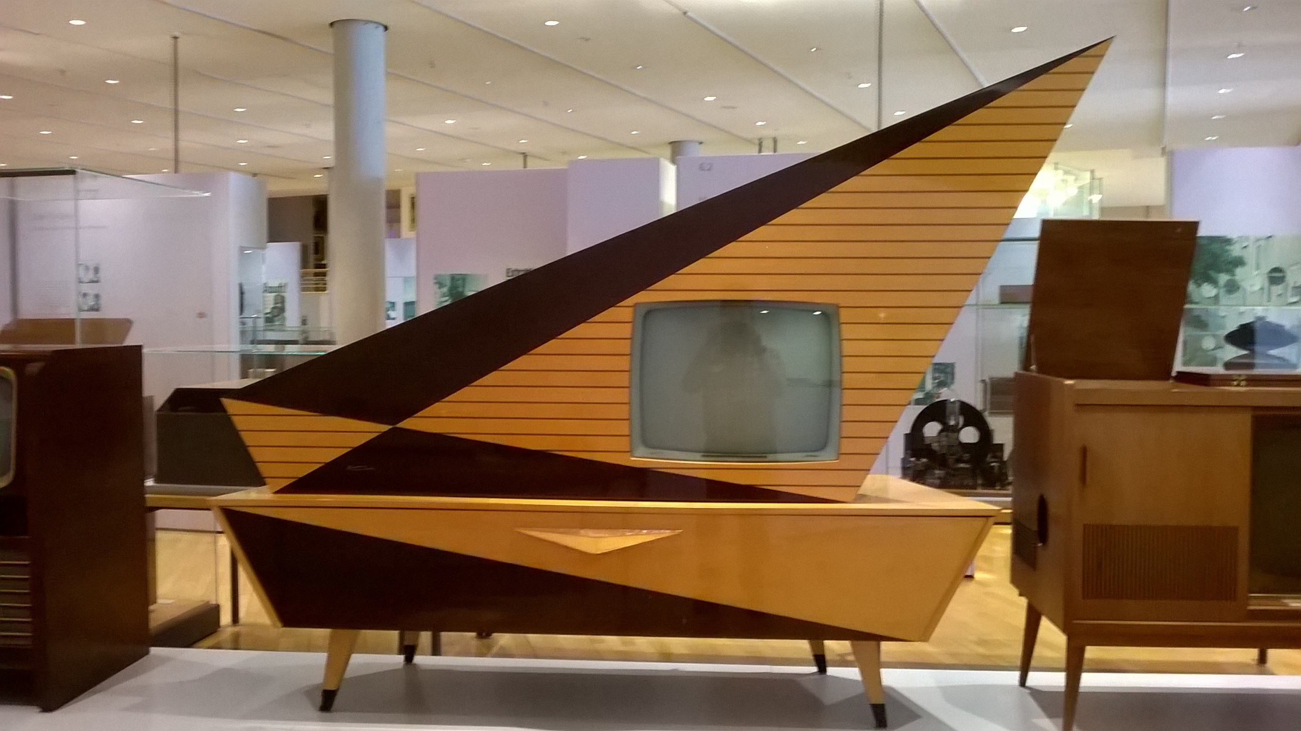 The Kuba Komet TV-radio-recordplayer combination was produced by Kuba-Imperial, Wolfenbüttel, since 1957 [1] to around 1962 [2].